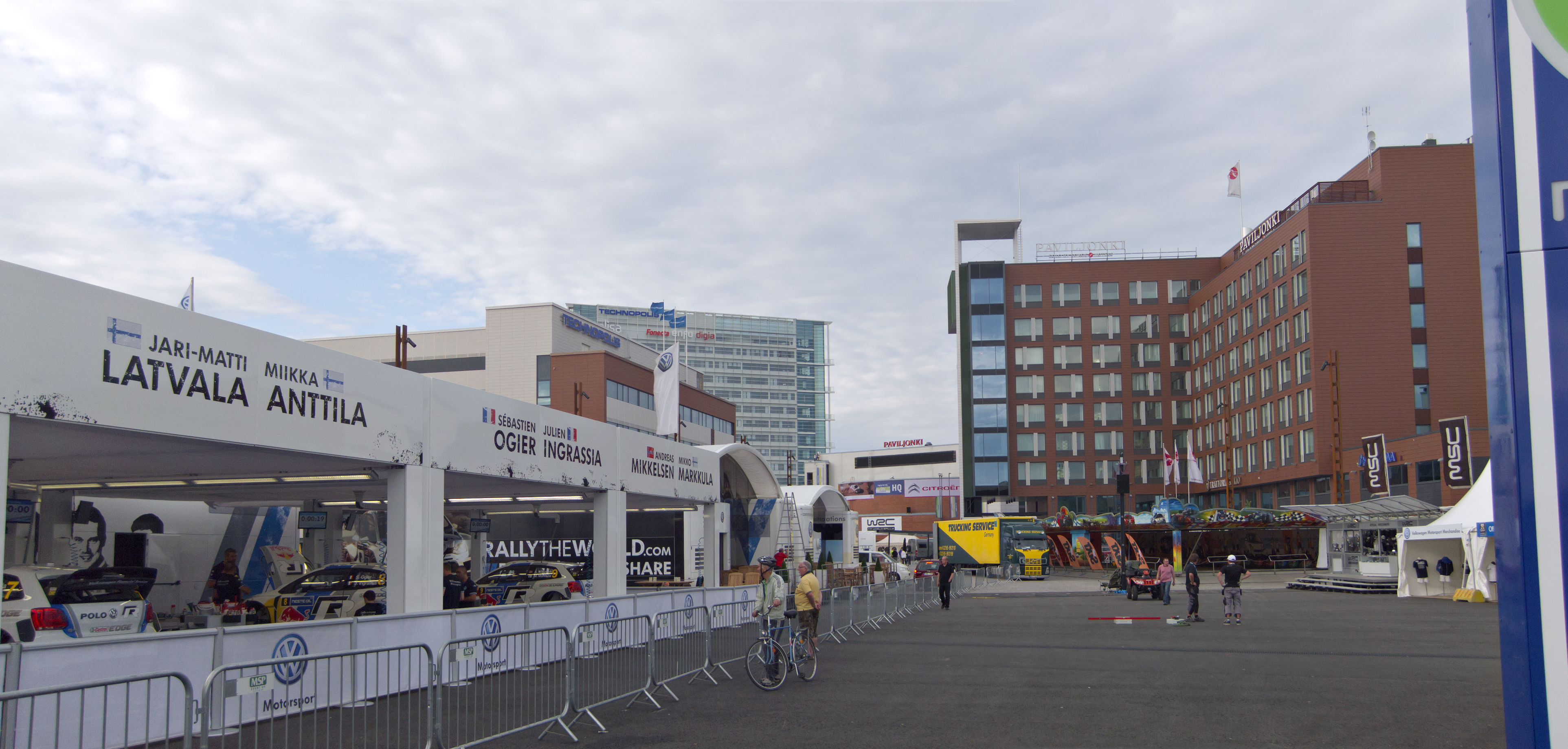 Tuesday at the service park of the 2013 Rally Finland.